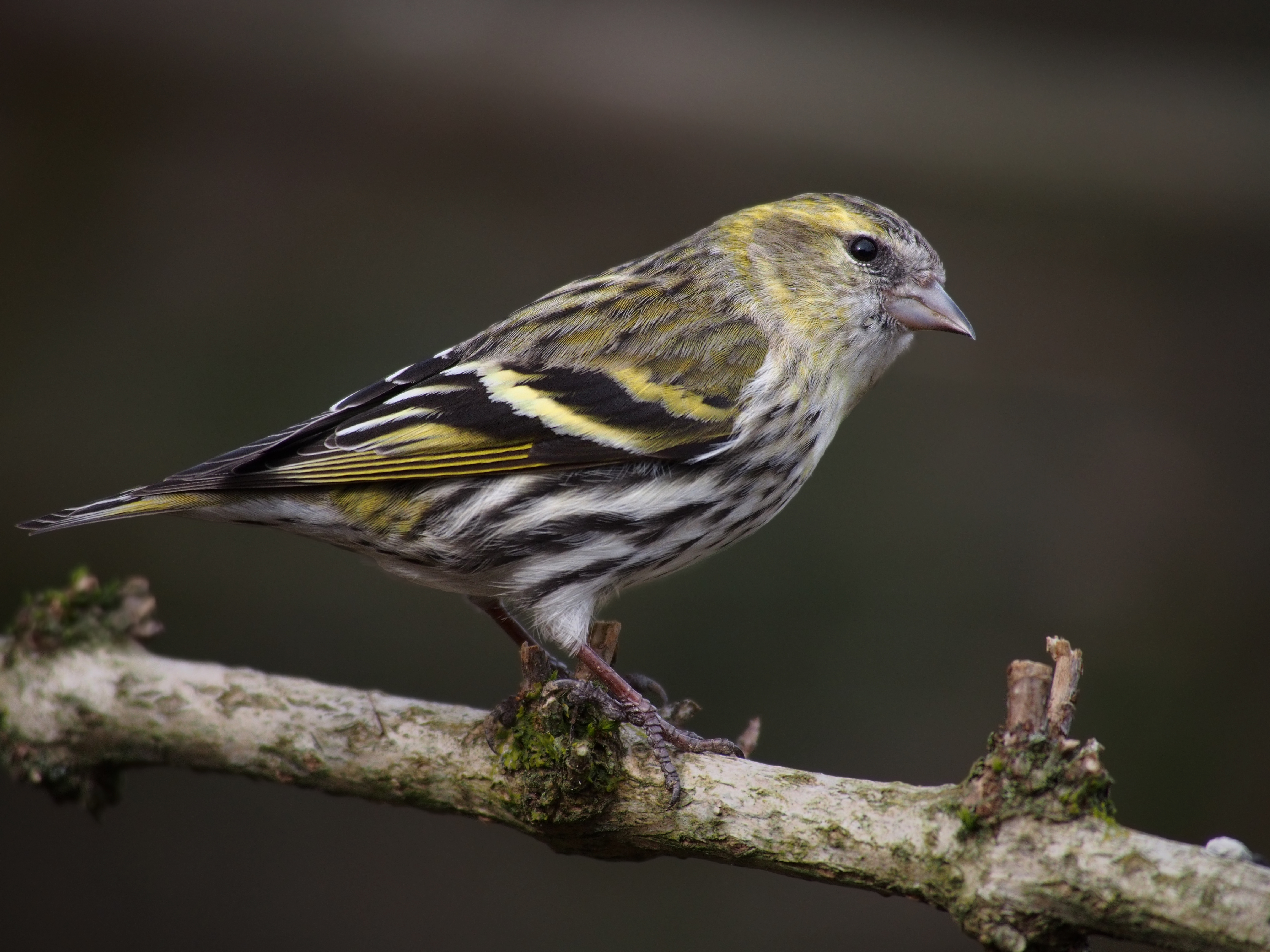 Female siskin